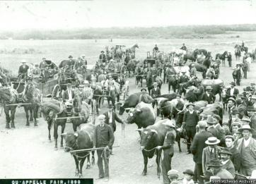 Qu'Appelle Fair, 1898